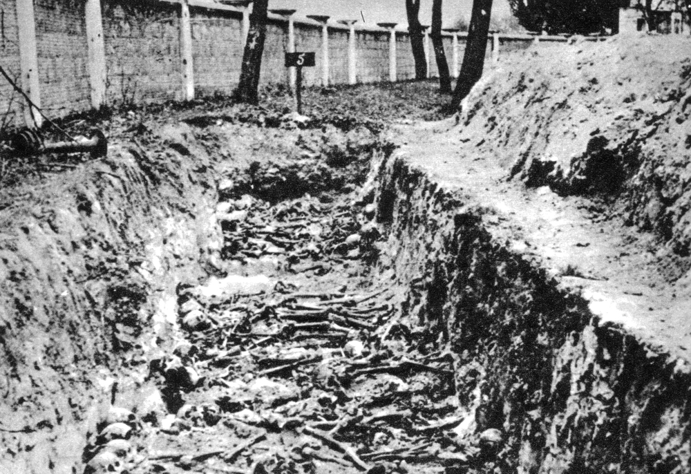 Mass grave of soviet soldiers, killed by Germans in soviet war prisoners concentration camp in Deblin, German-occupied Poland